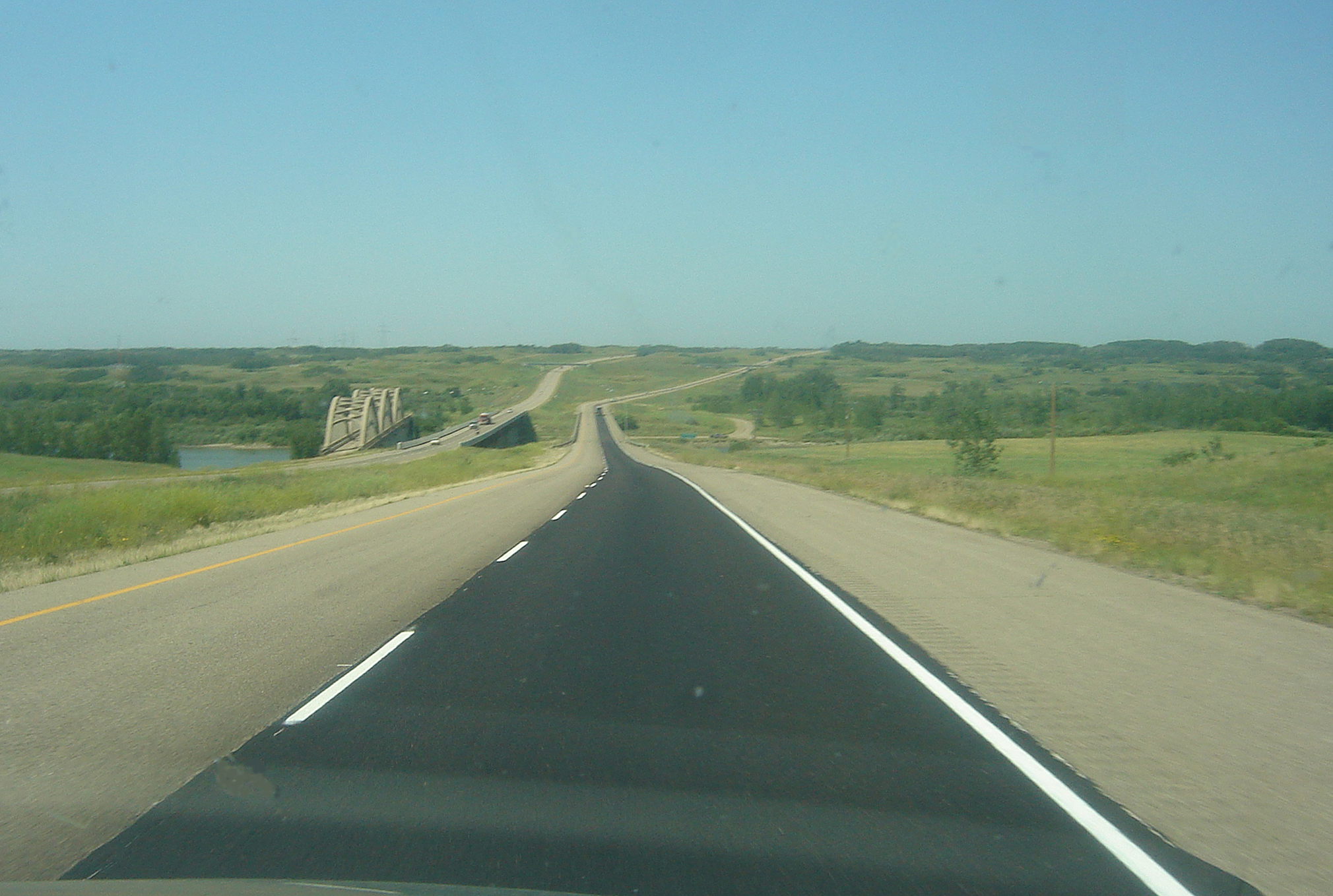 Yellowhead Saskatchewan Highway 16 Borden Bridge